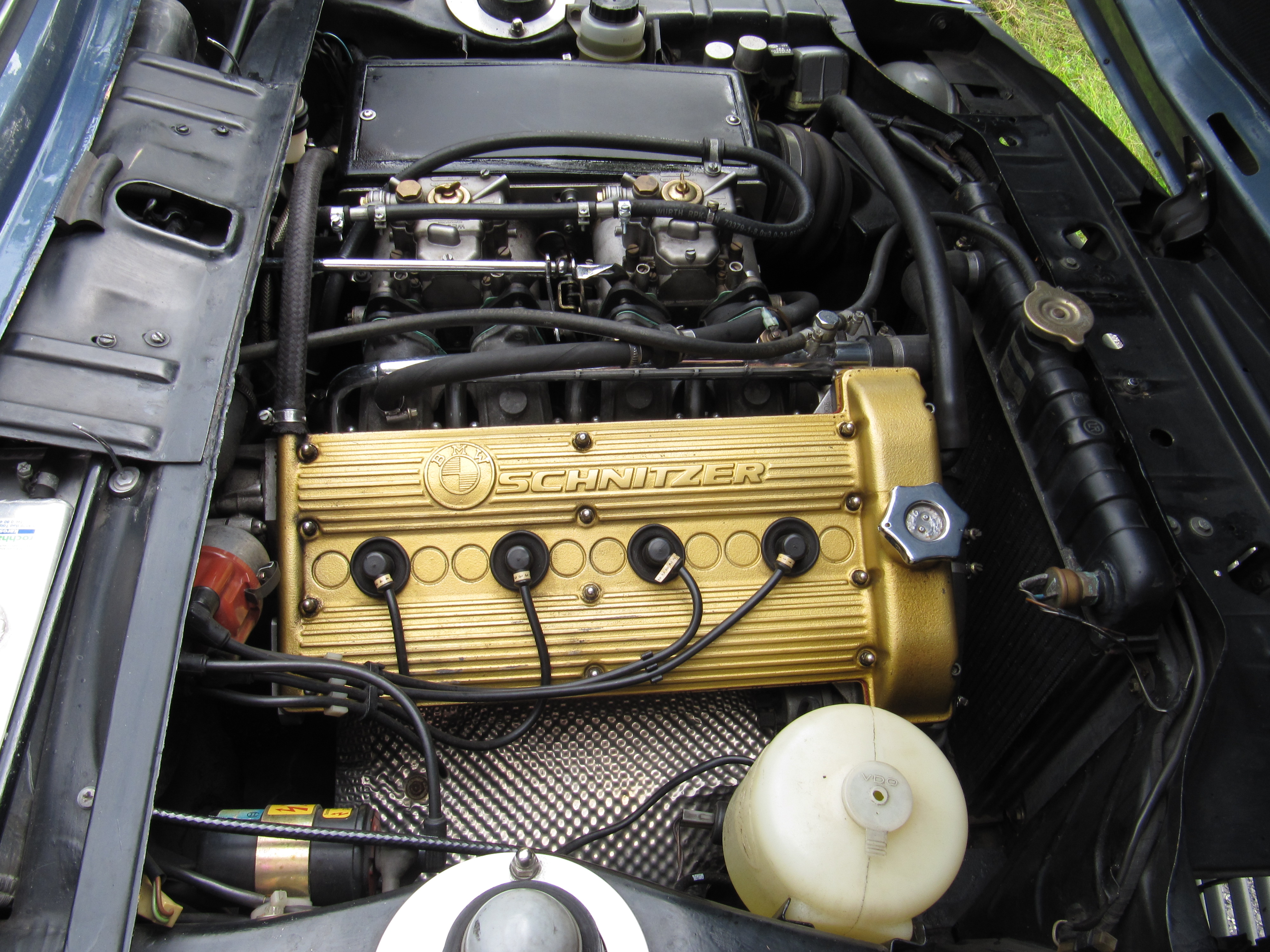 Engine of a BMW 2002 a BMW M10 16 valve Engine from Schnitzer